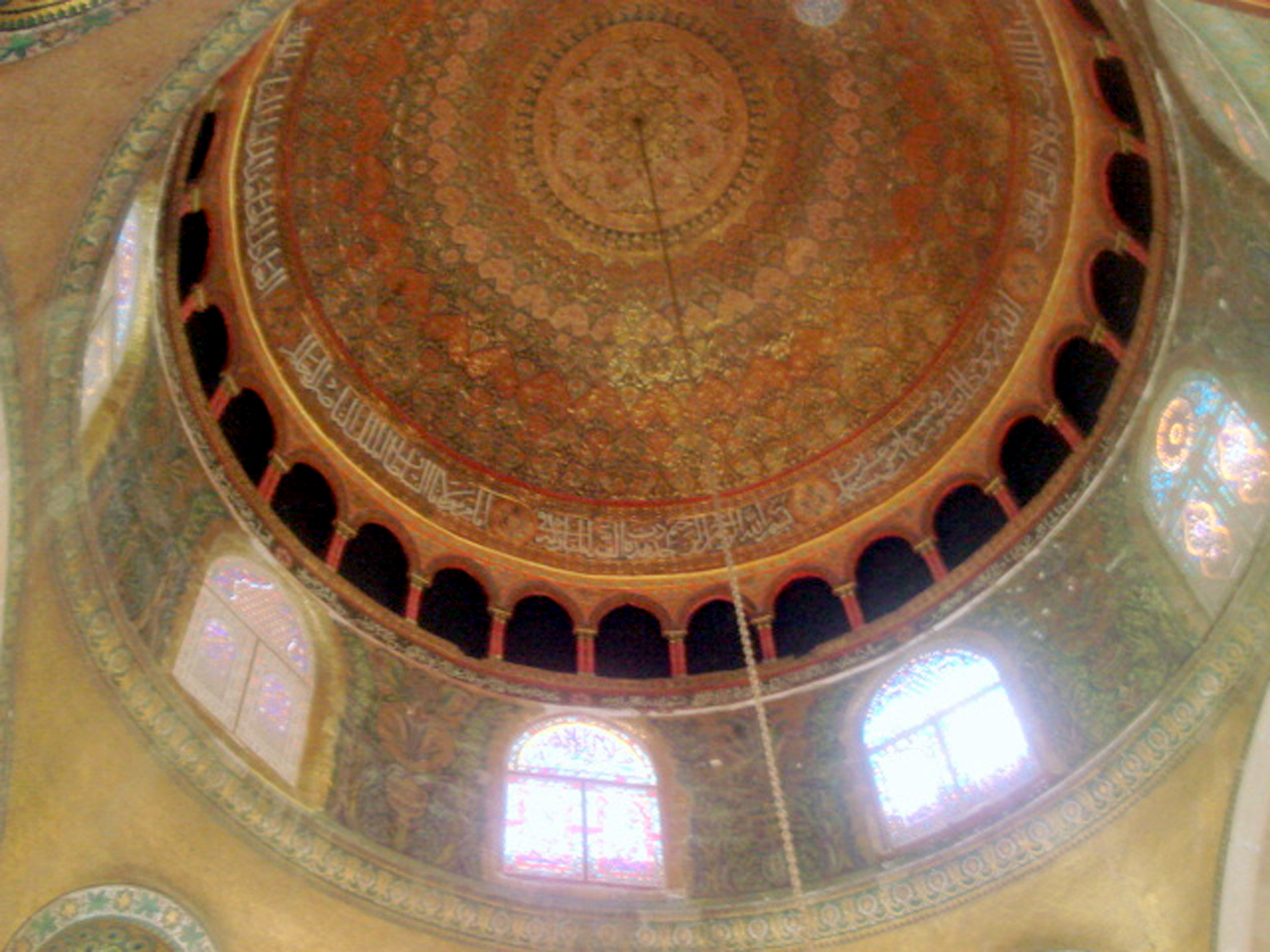 The Dome of Al Aqsa Mousque